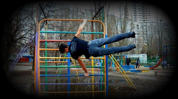 Parallel human flag.